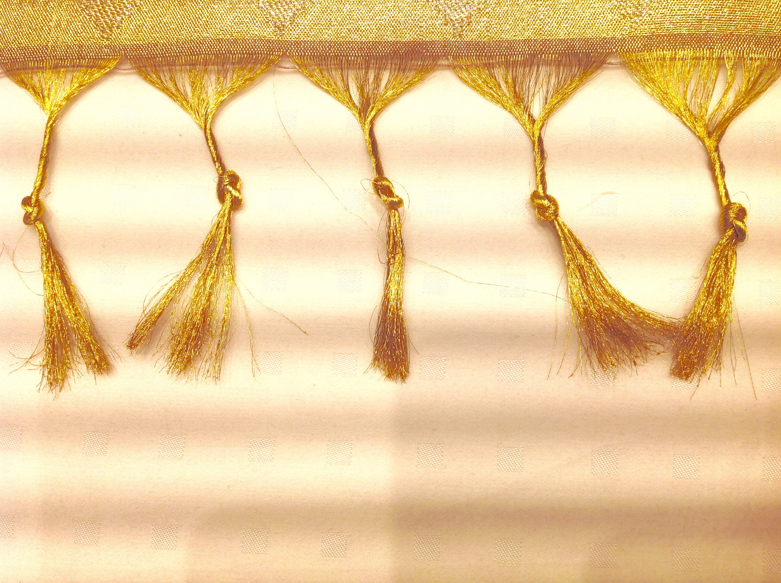 Silk thread